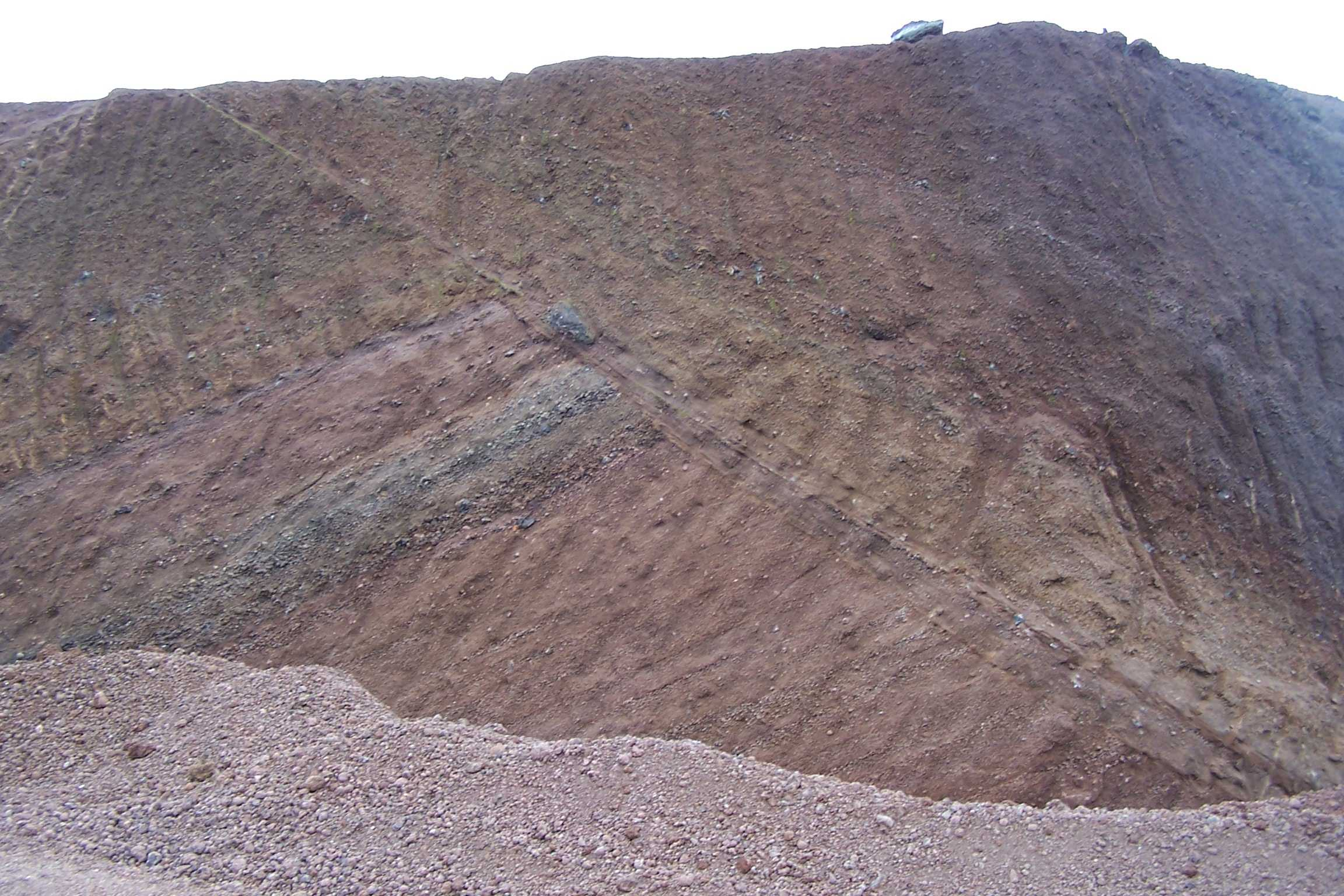 Original description